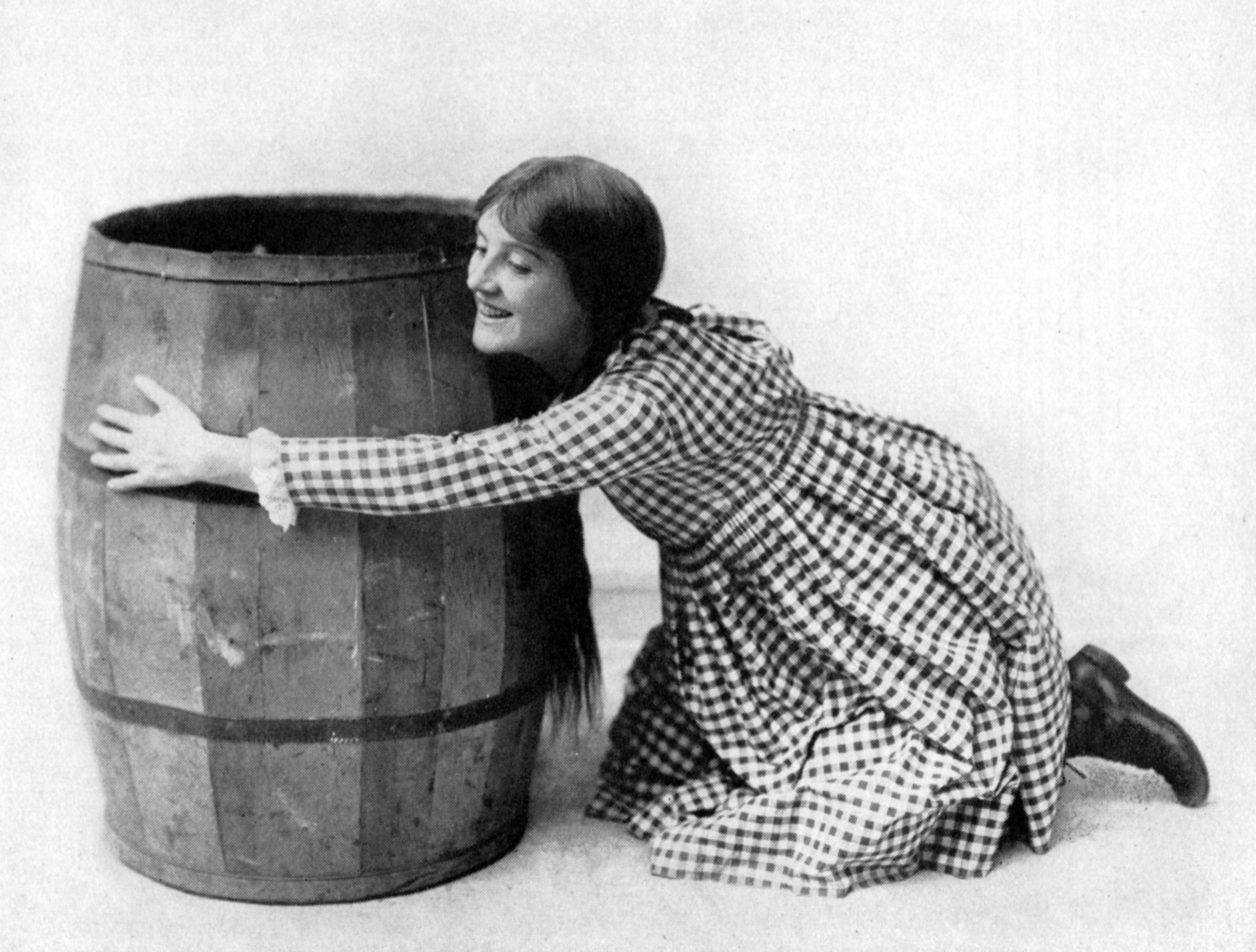 Promotional photograph for the Broadway production of Pollyanna, starring Patricia Collinge Caption reads (in part) as follows: Pollyanna embraces a barrel because it is the container of clothes and good things for her.